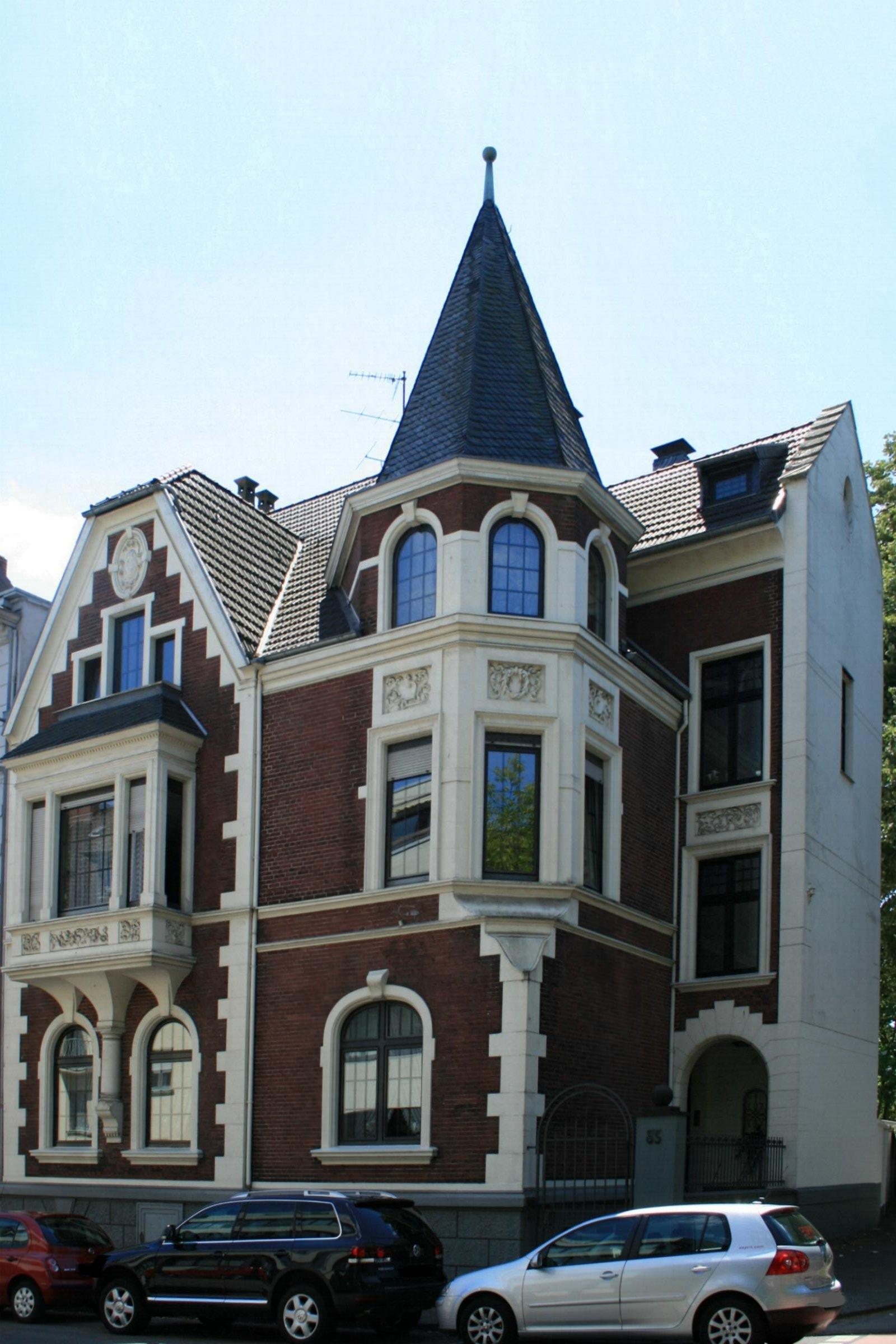 Cultural heritage monument No. Sch 050 in Mönchengladbach